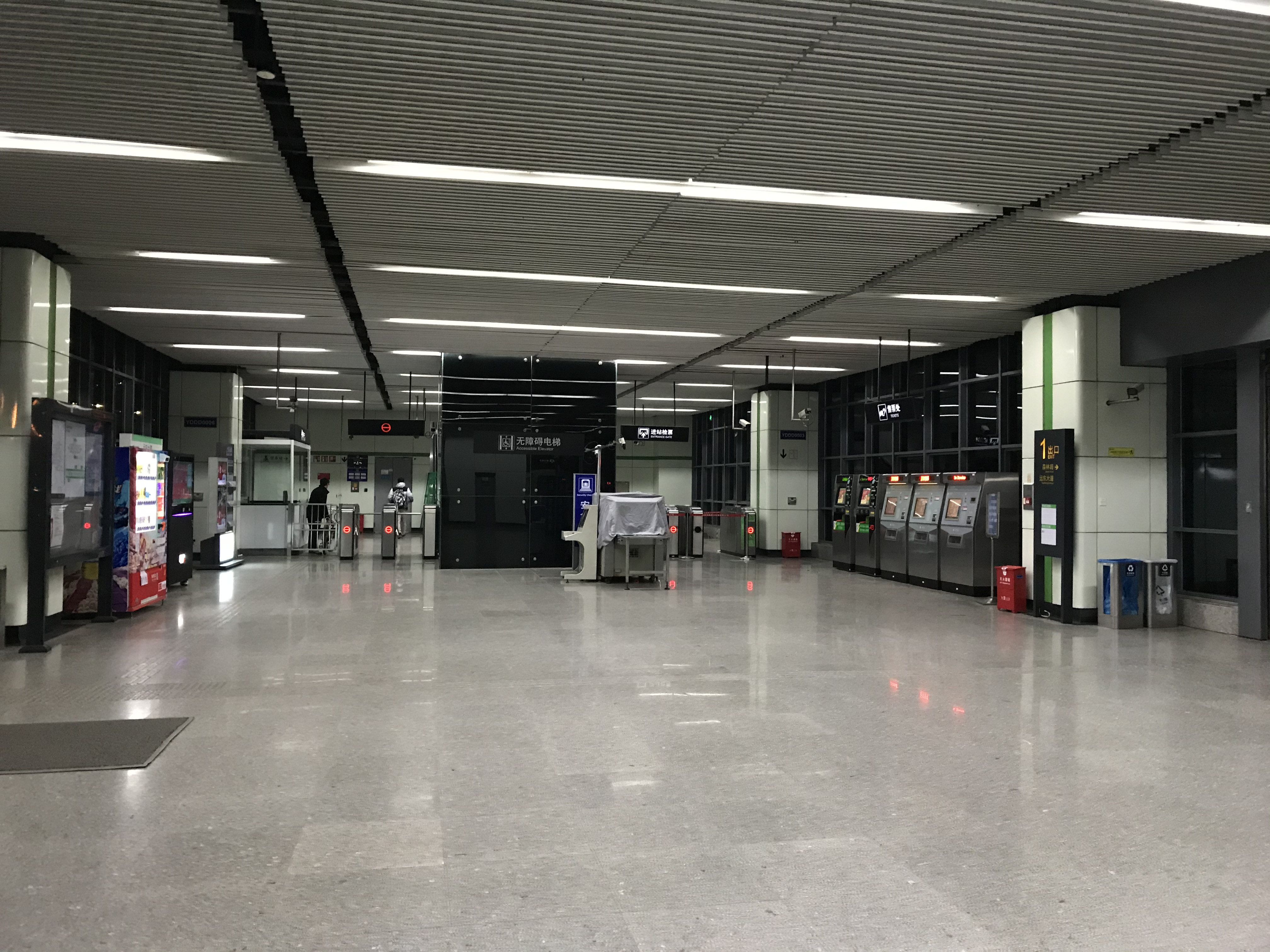 Connection: Black taxis